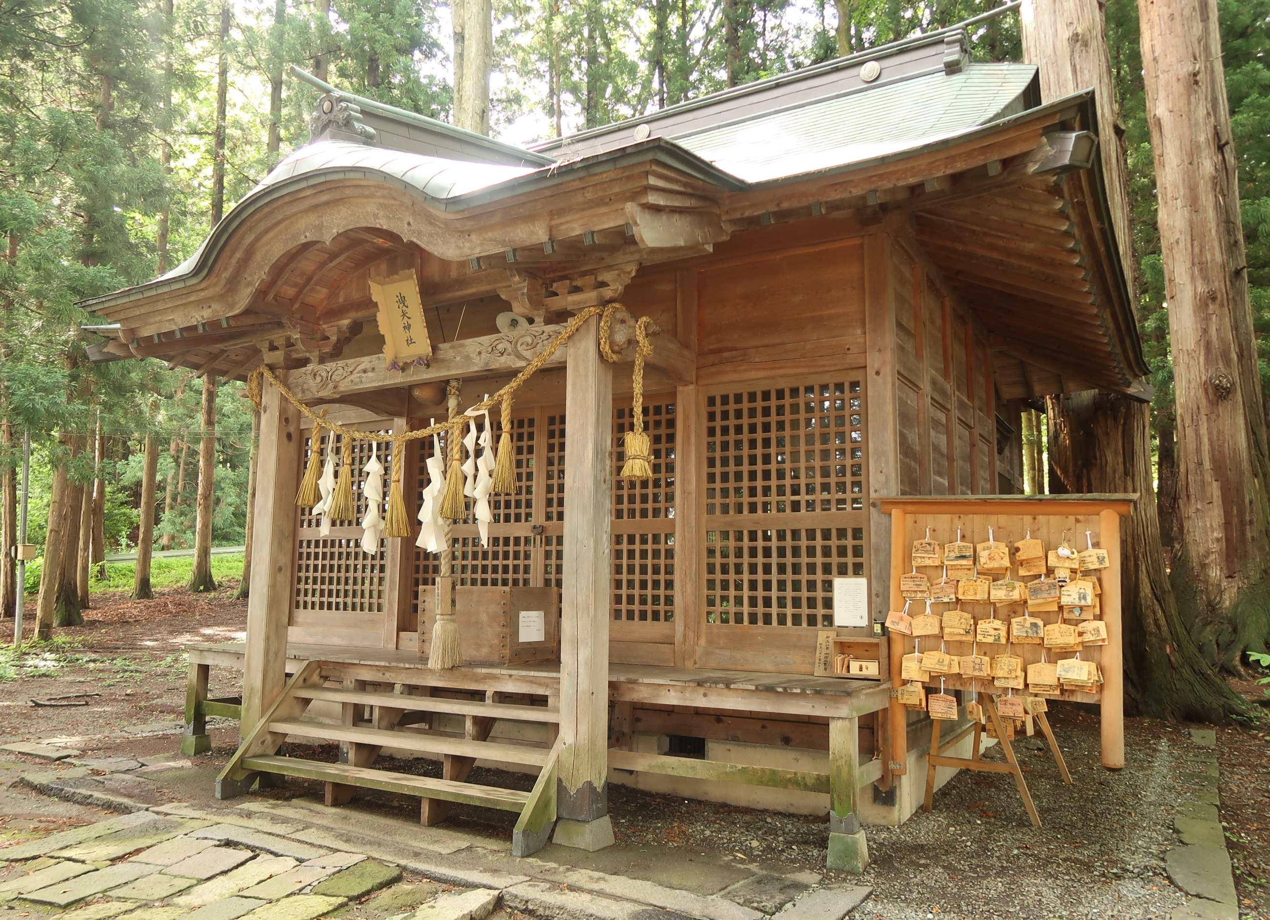 Moriya Shrine (Kawagishi-Higashi, Okaya City, Nagano)